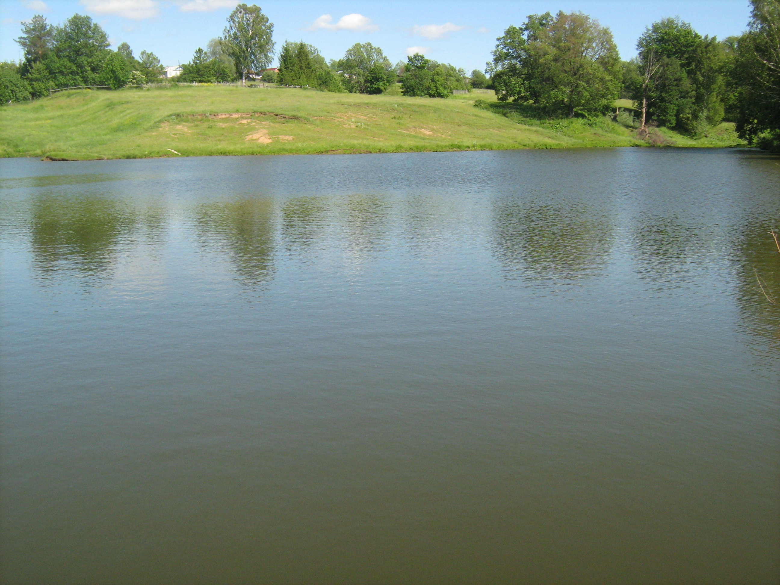 Pond in Krasnochetaysky District, Chuvashia, Russia